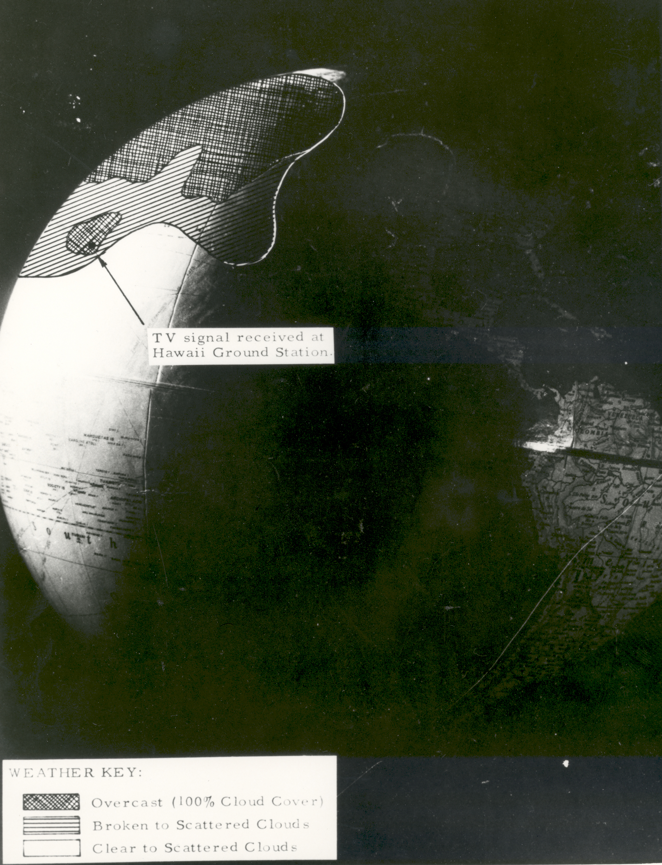 The lined areas at the left represent a cloud-cover map, prepared from meteorology charts, which have been superimposed on a glove to show how the lighted area which the Explorer VI television scanner saw on August 14, 1959.